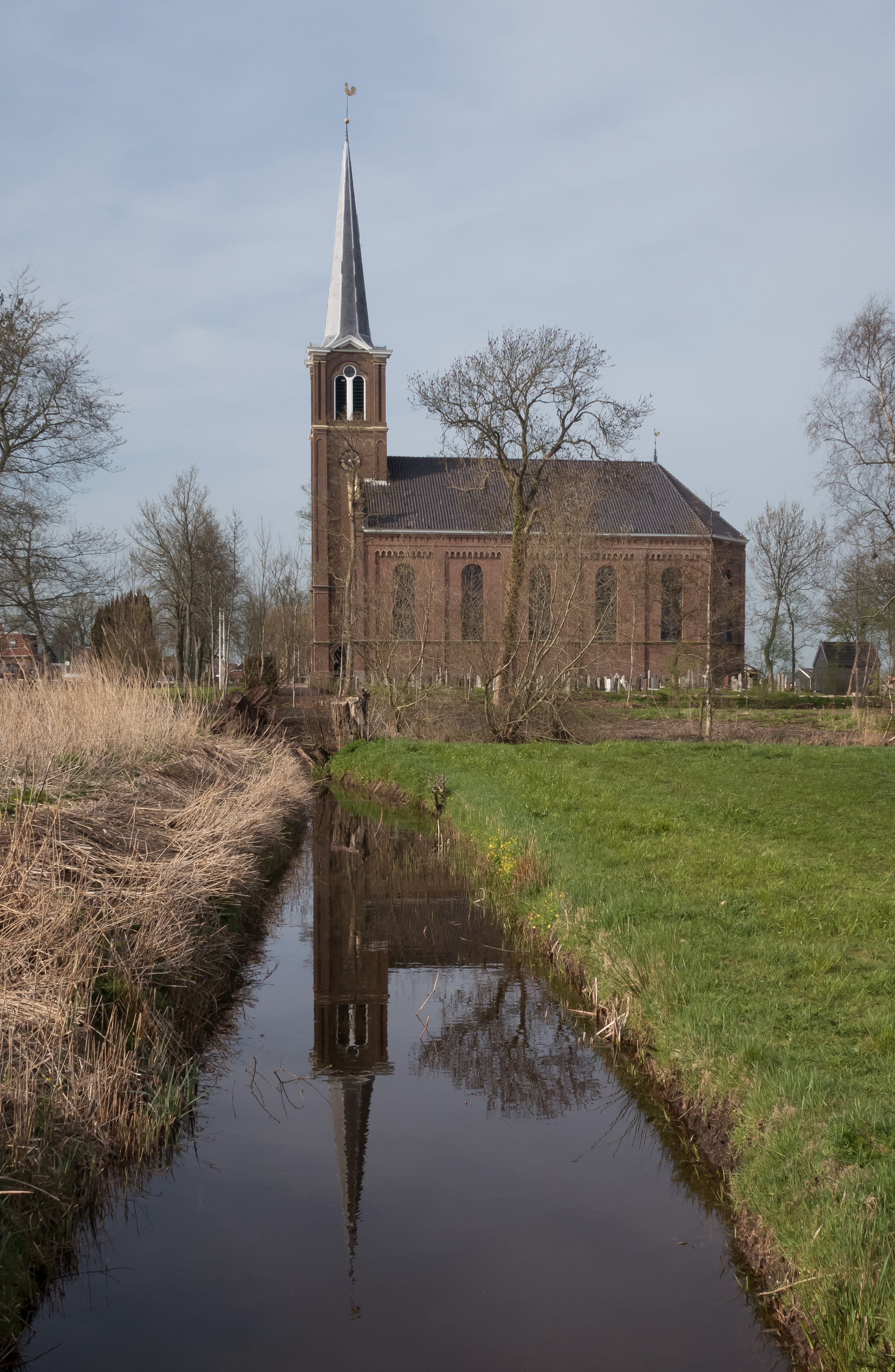 Hommerts, church: de Johannes de Doperkerk